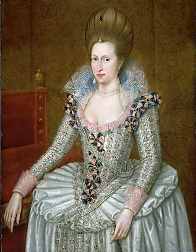 Portrait of Anne of Denmark; oil on panel, National Maritime Museum, London